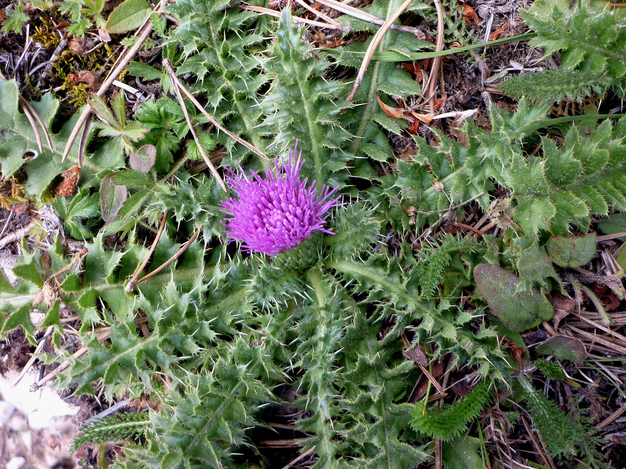 Cirsium acaule. In la Bòfia, Guixers (Solsonès - Catalunya). To 2.0100 m. altitude